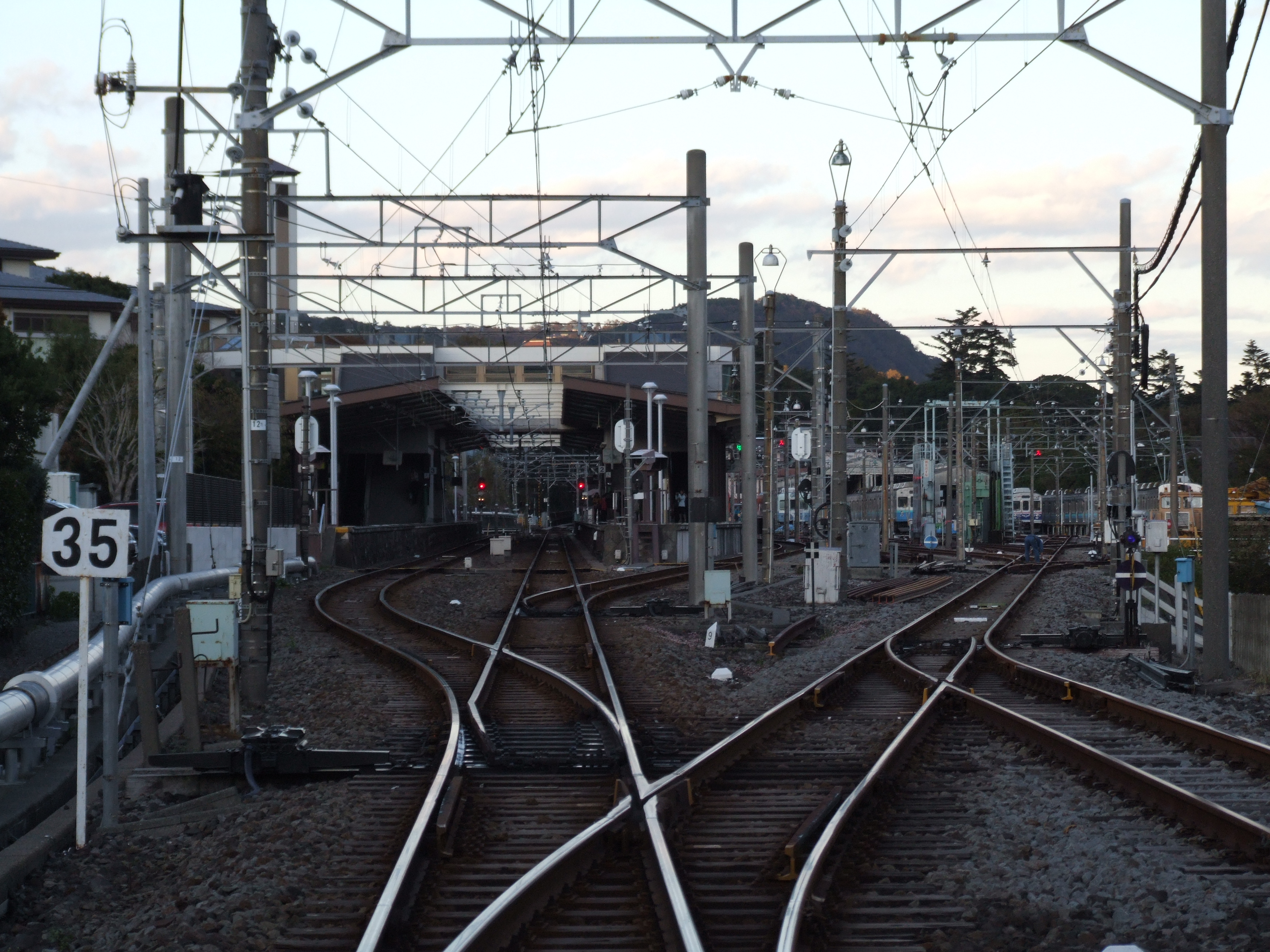 Izu-Kogen Station enclosure, viewed from a level crossing